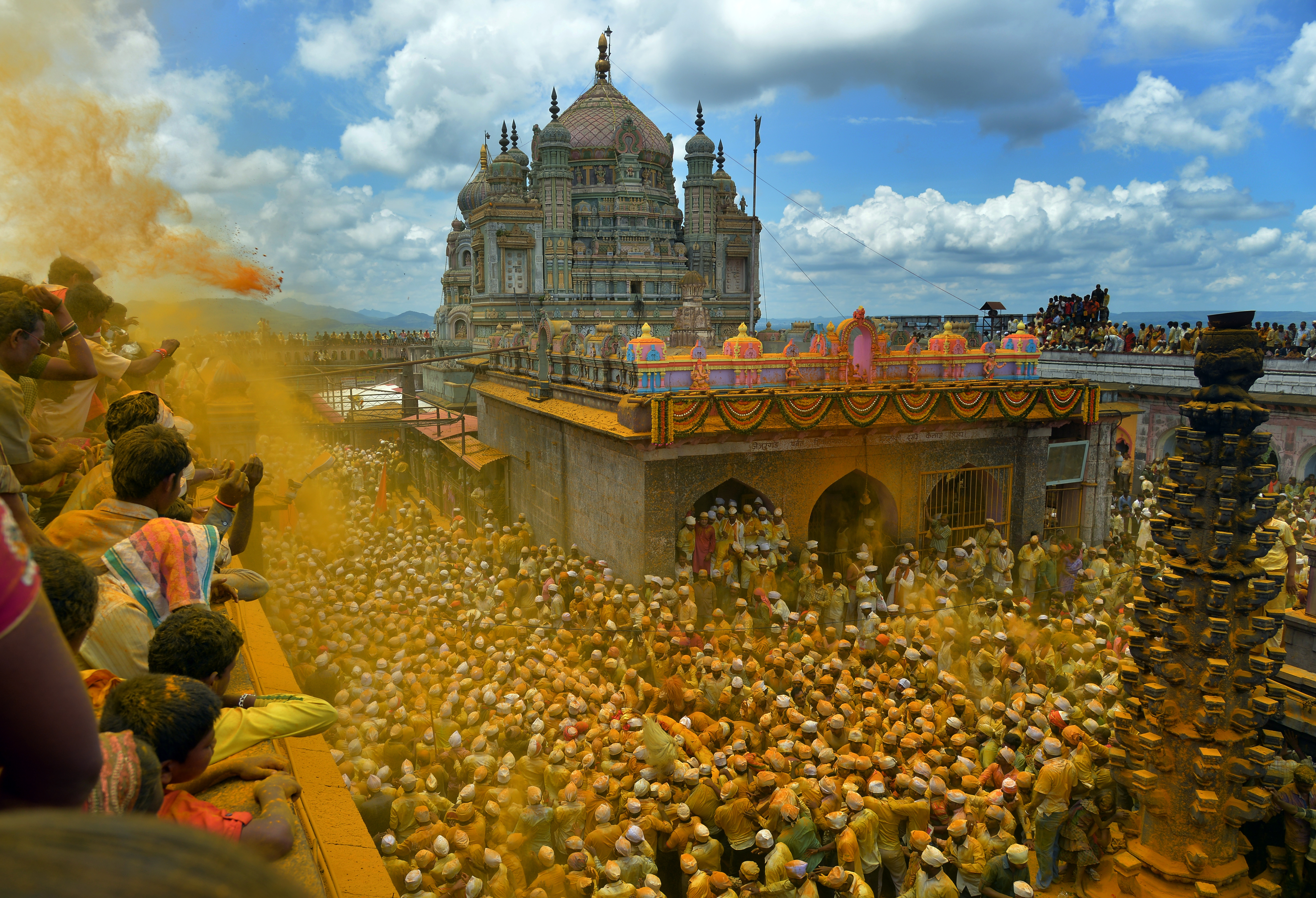 Temple dedicated to Khanderaya, also known as Khandoba, located in Jejuri, Pune, Maharashtra, India. It is one of the places of prime religious importance for Marathi-speaking people and a State Protected Monument of the Archaeological Survey of India (ASI). Khandoba is worshipped with turmeric powder (called Bhandār in Marathi), fruit and leaves of the bel tree, onions and other plant offerings. Devotees shower Bhandār on each other.